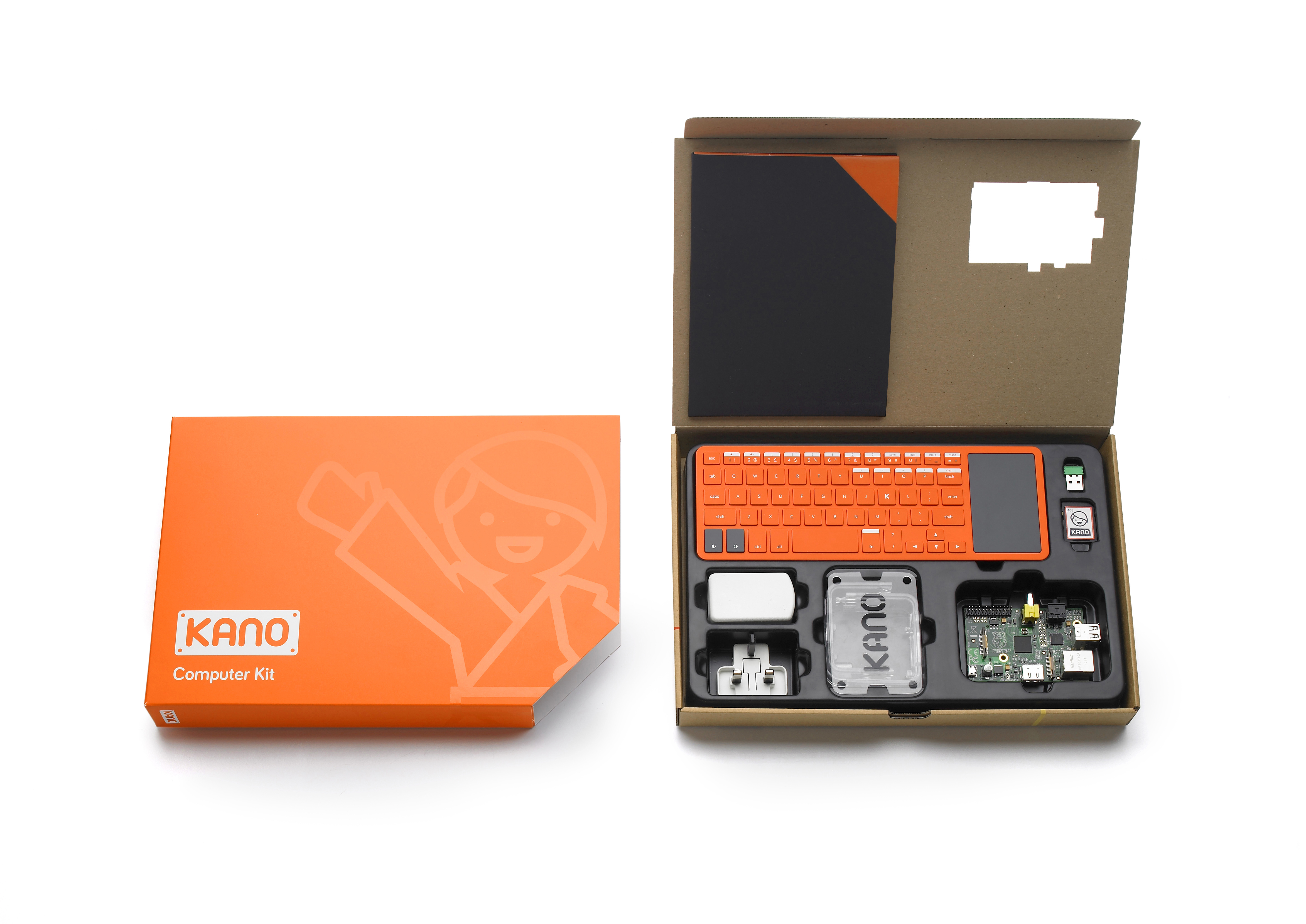 The Kano computer and coding kit